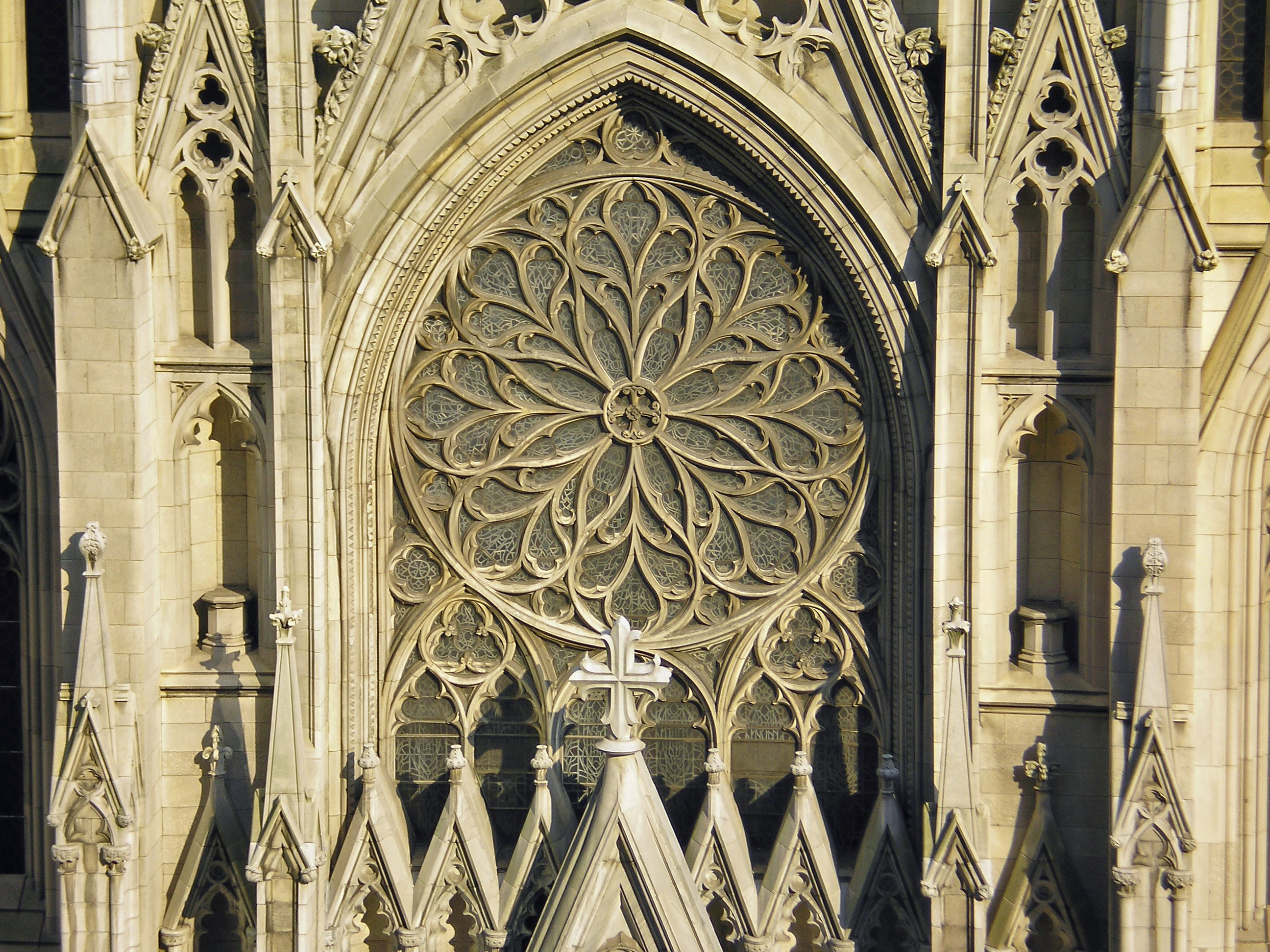 Facade St. Patrick's Cathedral, New York by David Shankbone